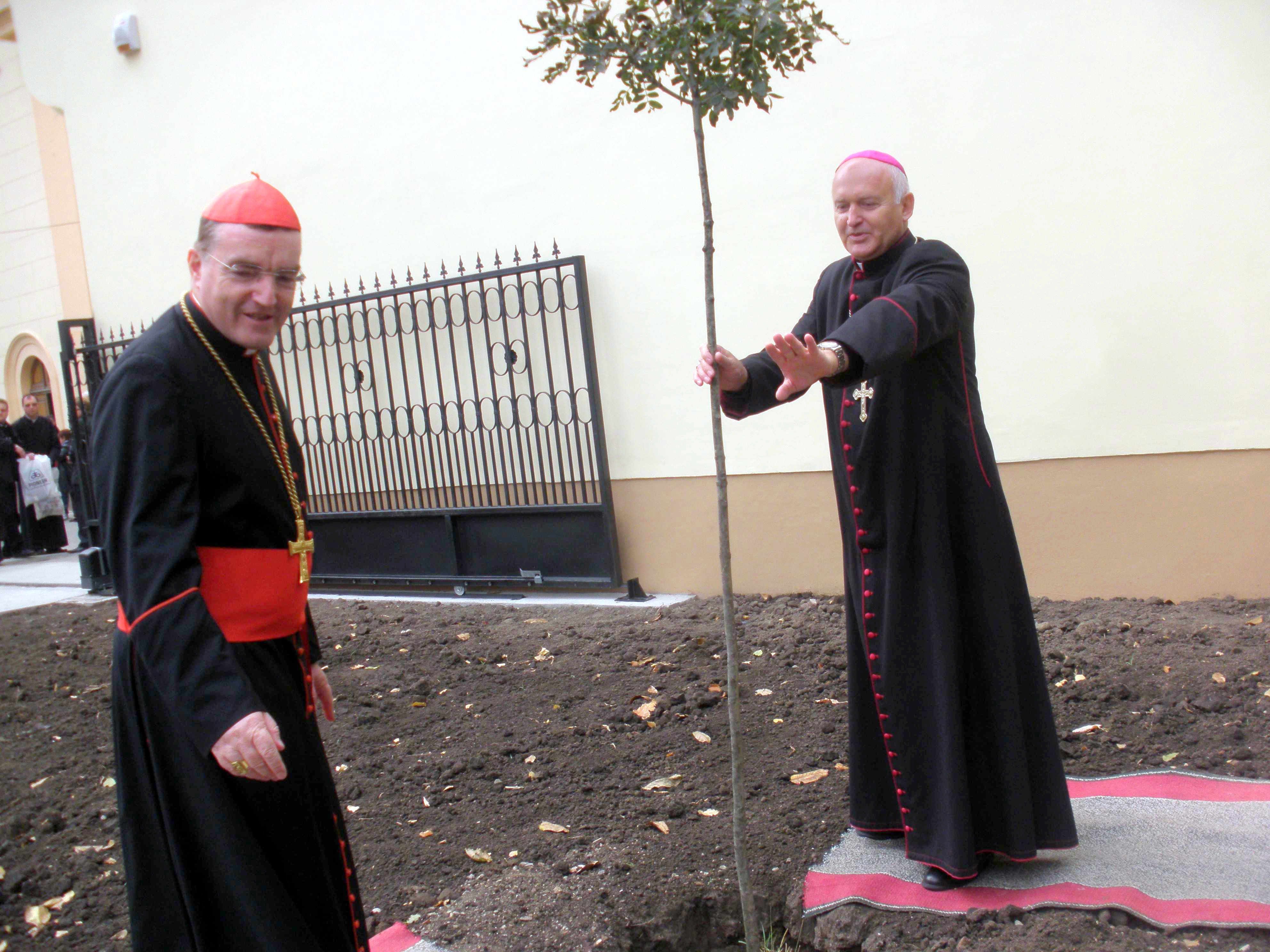 Cardinal of Zagreb Josip Bozanić and bishop of Zrenjanin László Német they plant the tree of peace on 8. X. 2011 in Zrenjanin